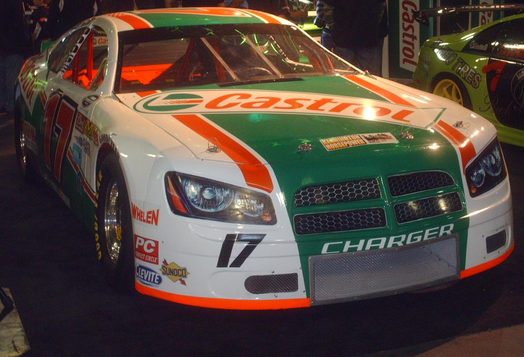 a Charger (NASCAR) Canadian Tire Series stock car photographed at the Montreal Sport Compact Performance Show.